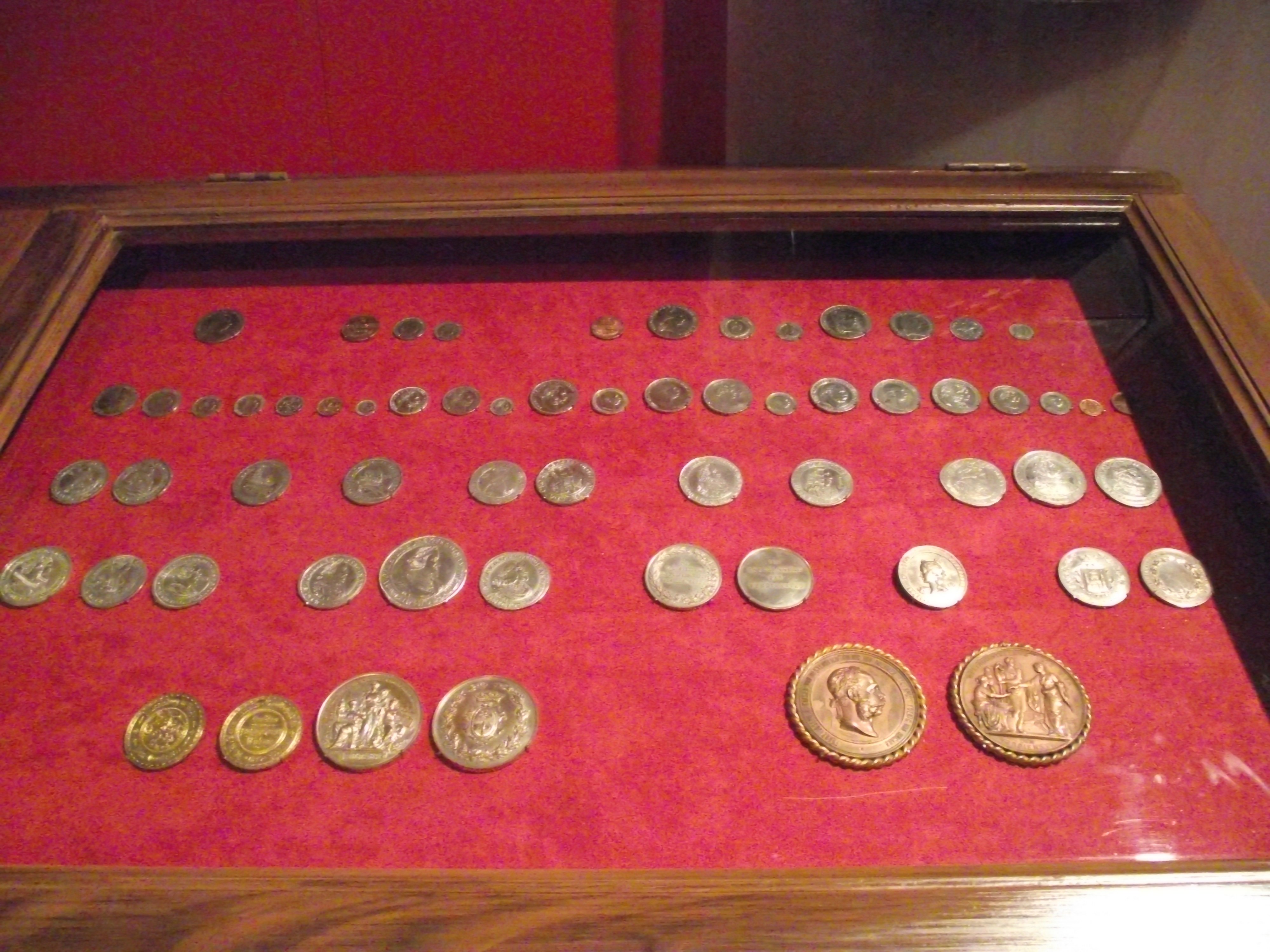 Maribor - History Museum